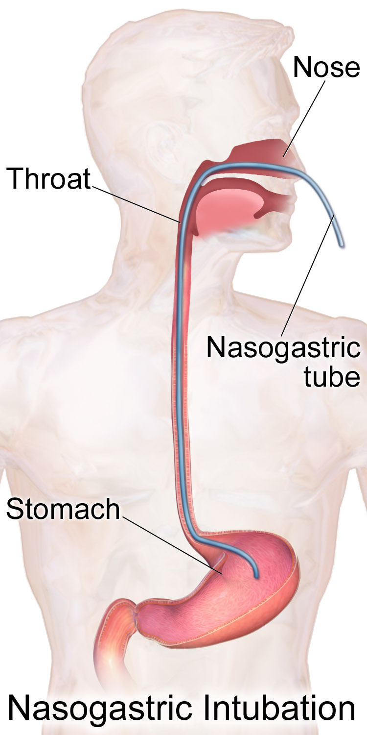 An illustration depicting nasogastric intubation.